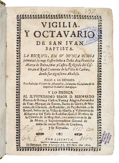 Cover from "Vigilia y octavario de San Juan Baptista", by Ana Francisca Abarca.